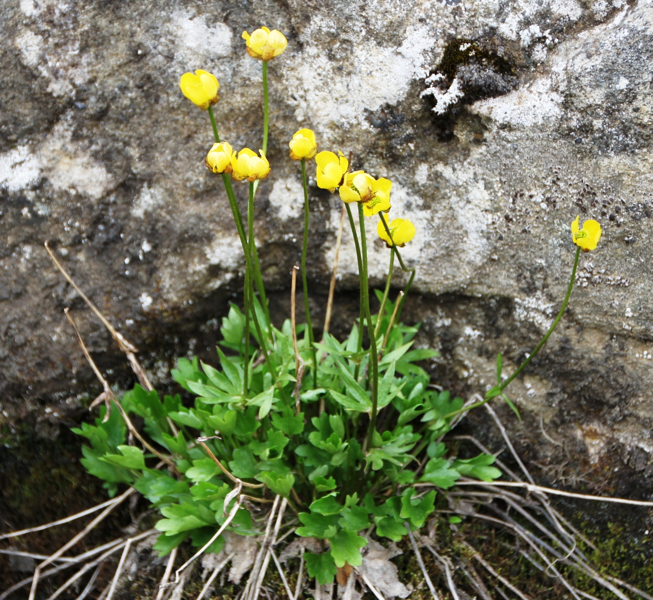 Ranunculus flower close to Longyearbyen / Adventdalen, central Spitsbergen - Svalbard.